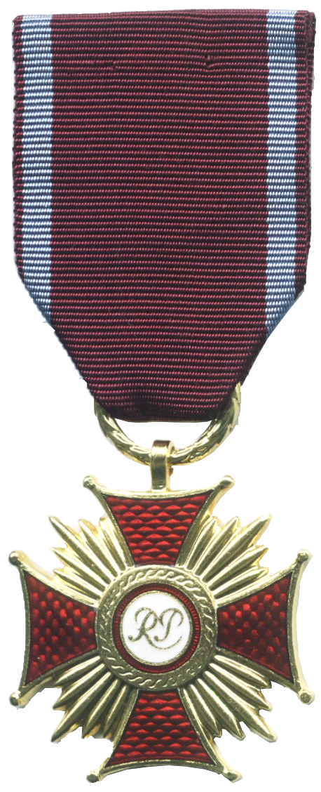 Złoty Krzyż Zasługi (Golden Cross of Merit) - Polish state civil award (variant after 1992, with RP initials - Rzeczpospolita Polska - Republic of Poland). ==